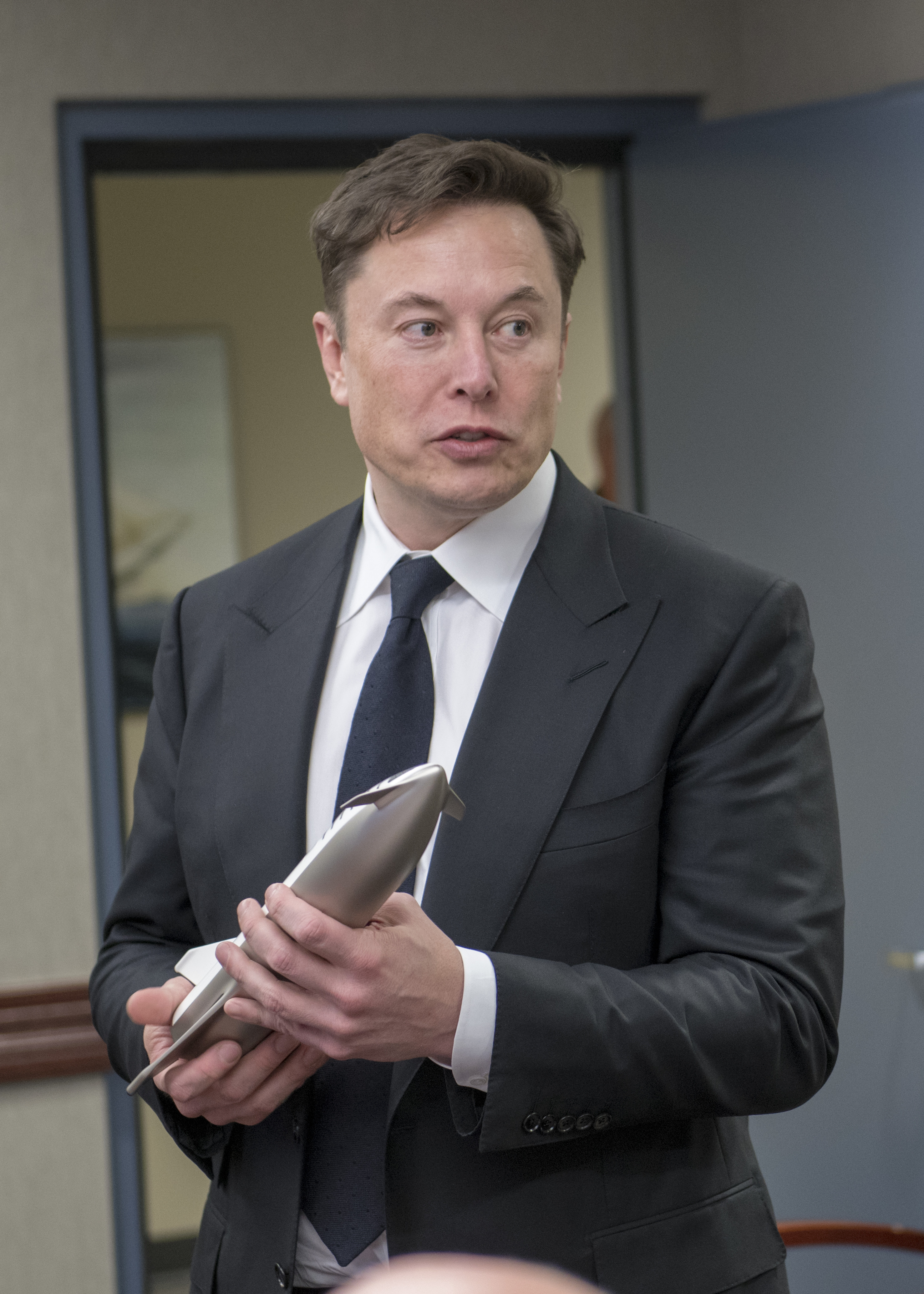 SpaceX CEO Elon Musk explains the future capabilities of his company’s “Starship” to senior leaders of the North American Aerospace Defense Command, U.S. Northern Command, and Air Force Space Command, April 15, 2019. During Musk’s visit to Colorado Springs, Colorado, he participated in conversations and round table briefings about future space operations and homeland defense innovation